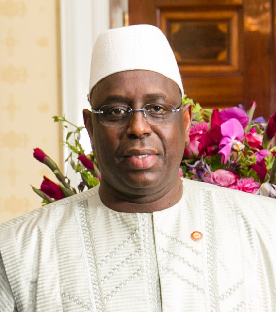 President Barack Obama and First Lady Michelle Obama greet His Excellency Macky Sall, President of the Republic of Senegal, and Mrs. Marieme Sall, in the Blue Room during a U.S.-Africa Leaders Summit dinner at the White House, Aug. 5, 2014. [Official White House Photo by Amanda Lucidon] This official White House photograph is in the public domain from a copyright perspective, so while restrictions such as personality or privacy rights may apply, in general, manipulations are allowed.